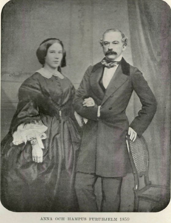 Photograph of Admiral Johan Hampus Furuhjelm with his wife Anna